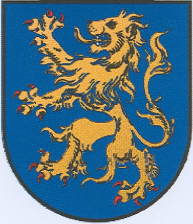 Coat of Arms of the Castelo Branco family